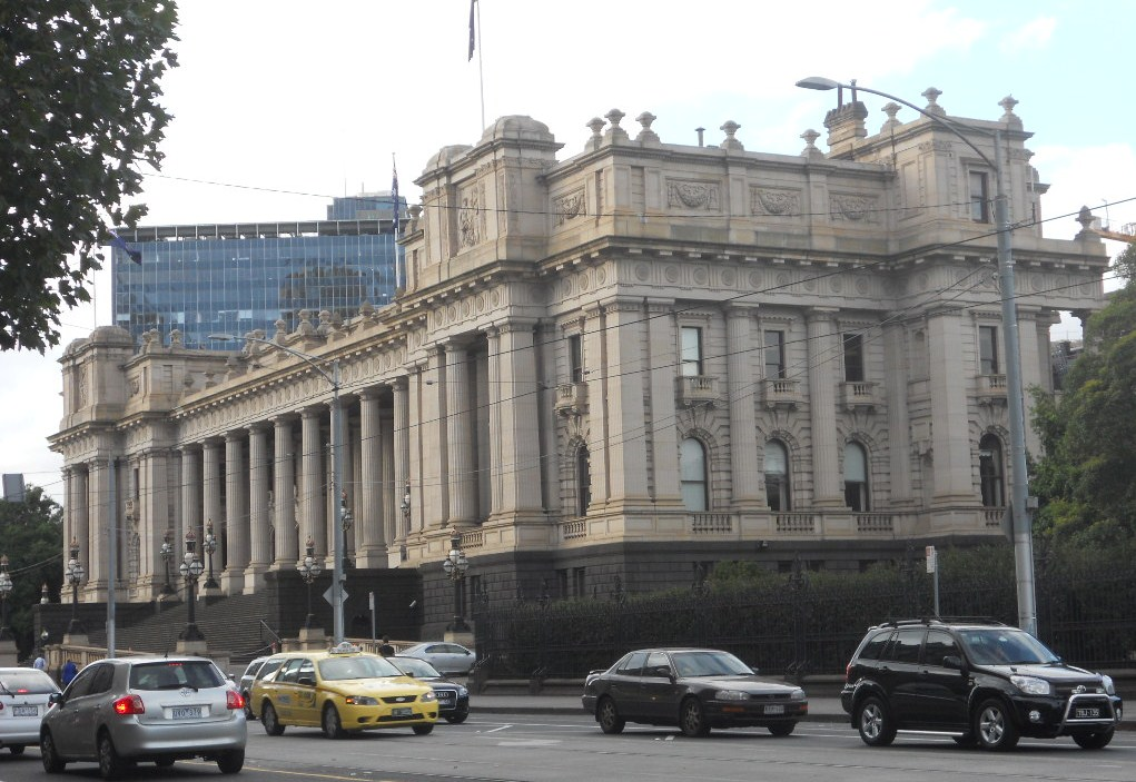 Parliament House, Melbourne